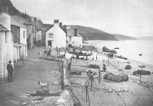 image of the now destroyed village of Hallsands, as it appeared in 1885.